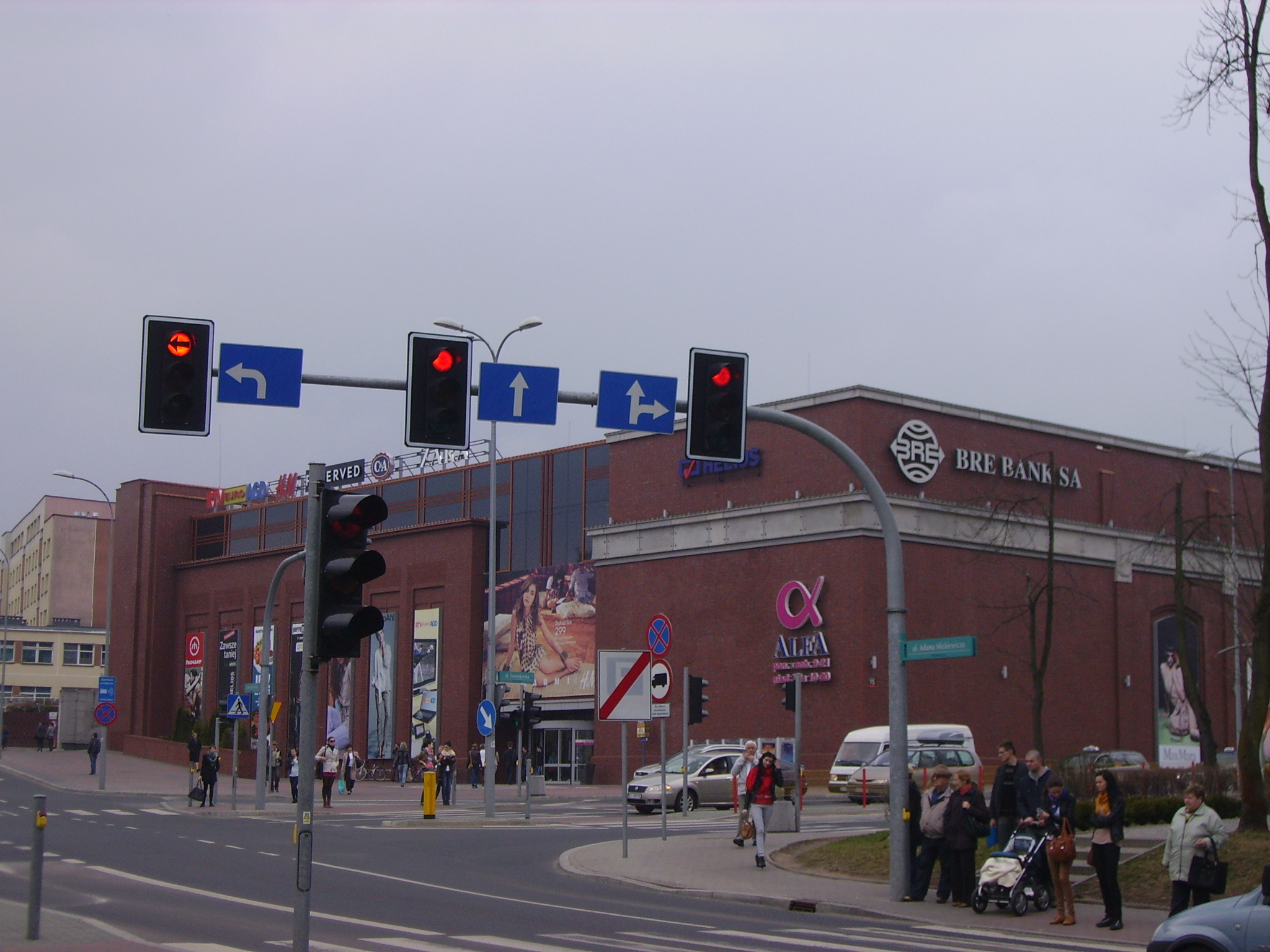 Alfa Białystok Centre - a shopping center also known as "Gallery Alfa", located at the intersection of Mickiewicz and Świętojańska